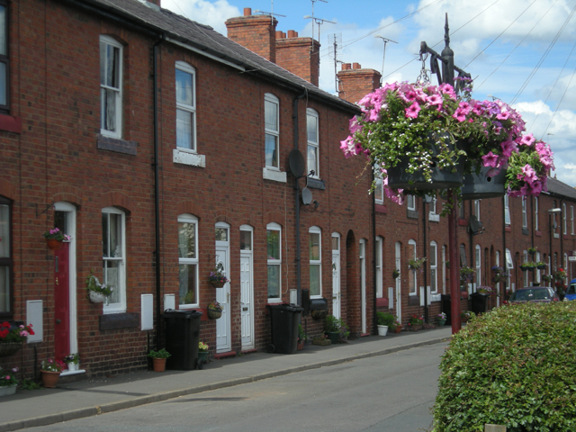 Victorian terraced houses